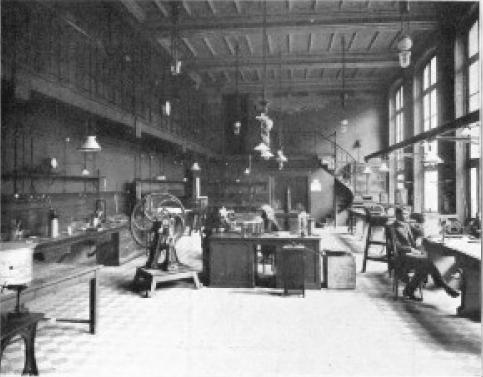 Laboratory of the physical researches of the faculty of sciences of the university of Paris at the Sorbonne